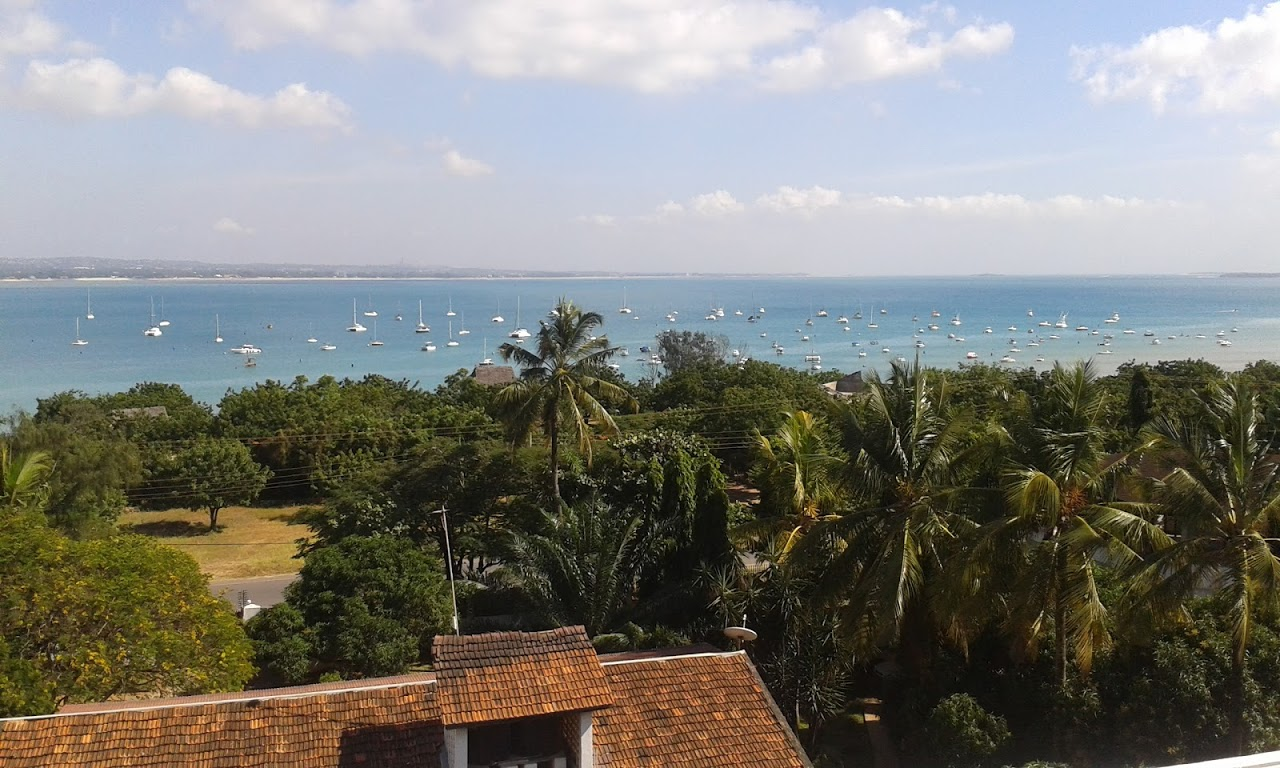 Msakai, Dar es salaam